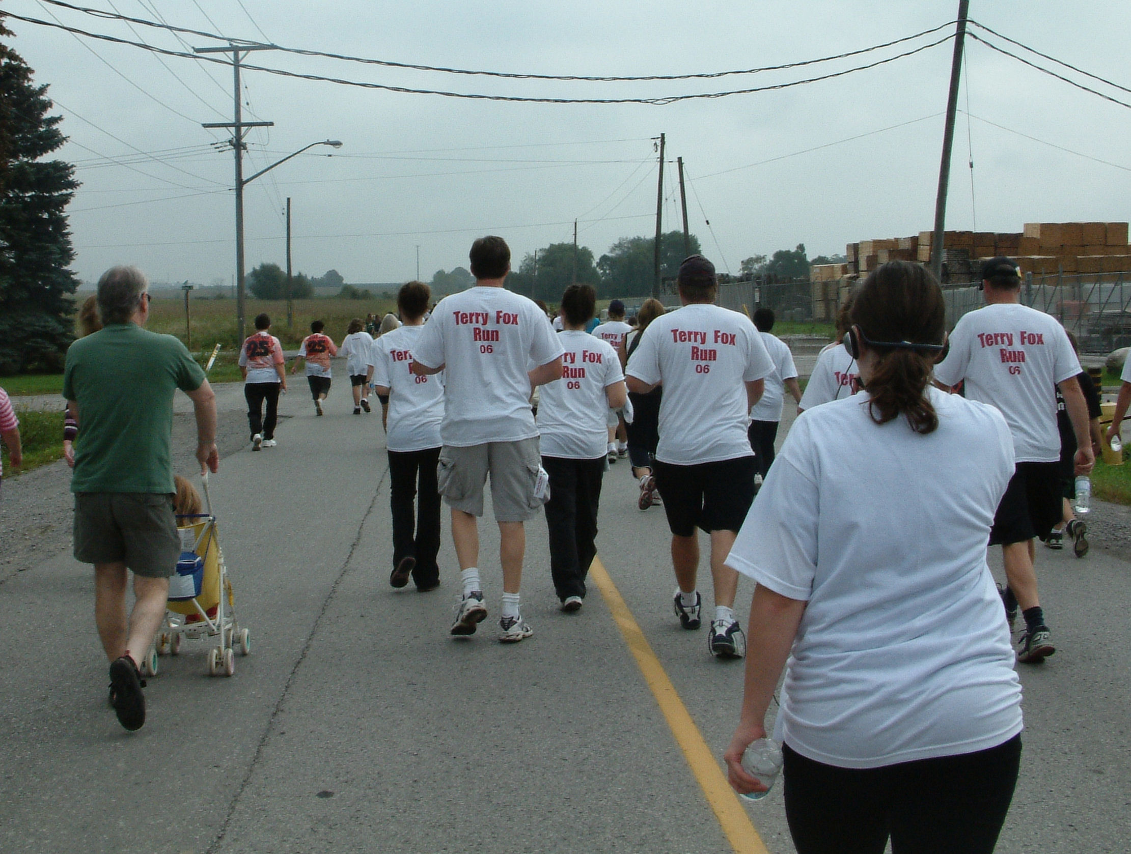 The 2006 Terry Fox Run in Bowmanville, Ontario in Canada. The annual Terry Fox Run is an extremely popular charity fundraising event held in more than 50 countries around the world alone and was begun in memory of the late Terry Fox, one of Canada's most beloved national figures. There are no official winners in the Run which is a non-competitive race.